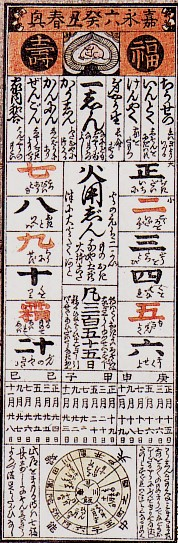 Japanese Calendar overview for 1853